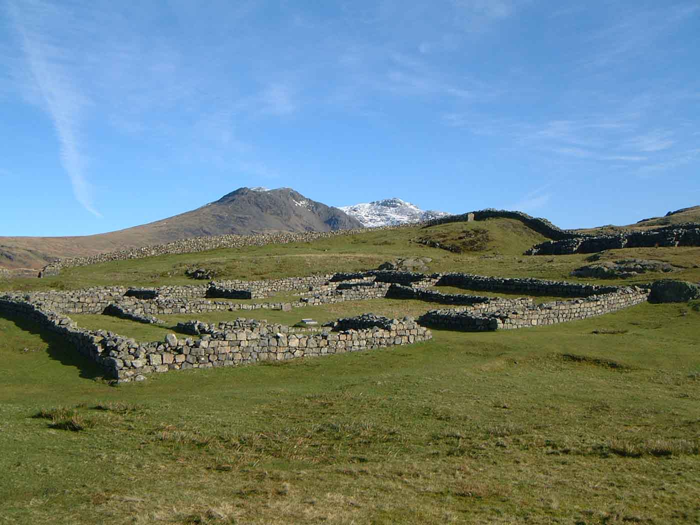 Personal photograph taken by Mick Knapton on 19th April 2005.